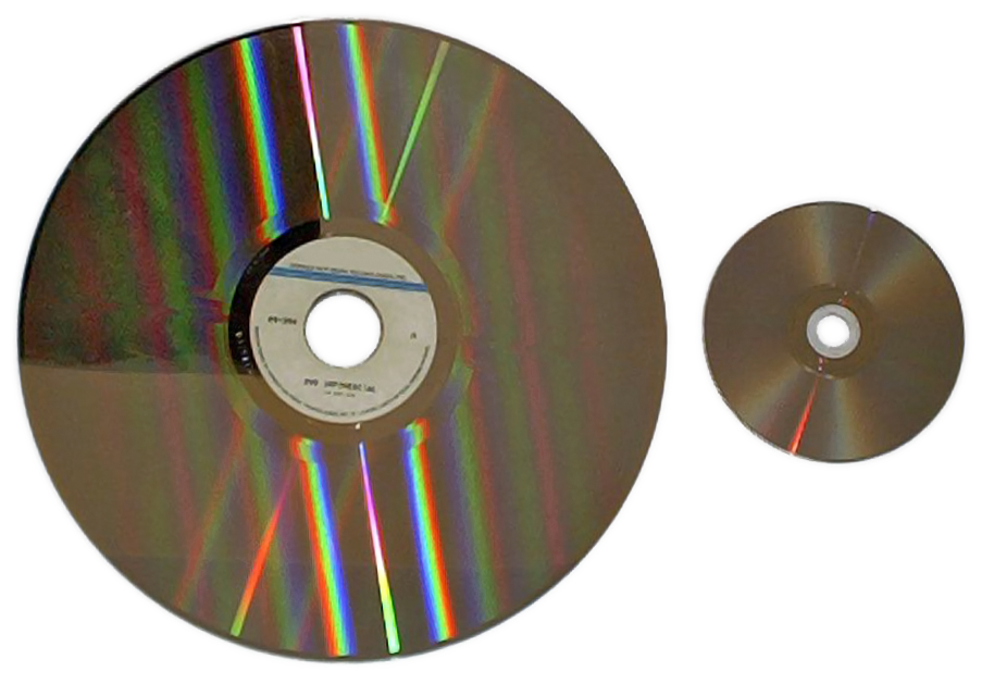 A laserdisc (left) compared with a DVD (right). (Version with transparent background).